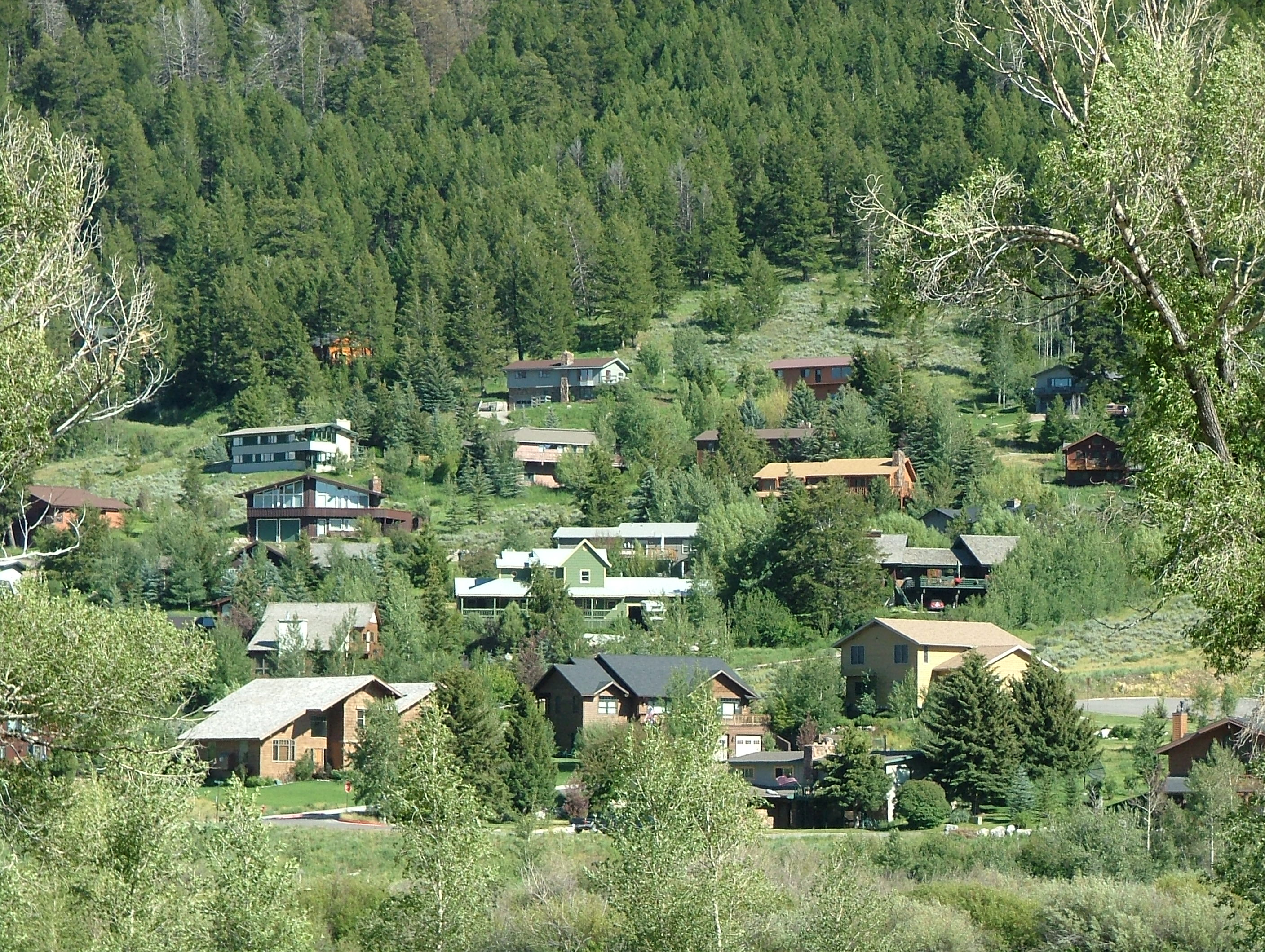 "Cottages" on the slope behind Jackson, Wyoming.